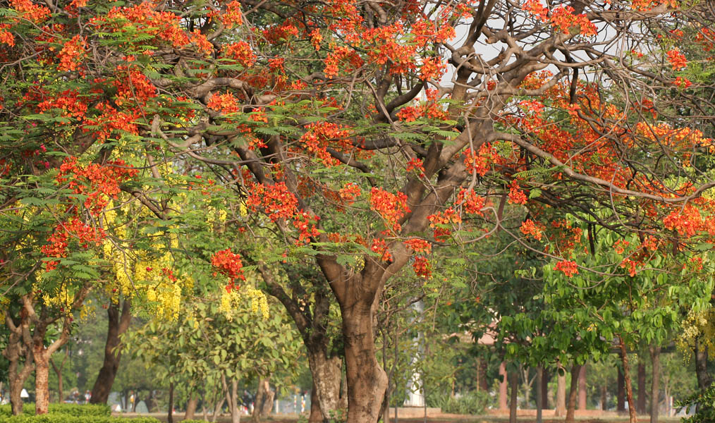 Gulmohur, Royal Poinciana, Flamboyant, Peacock Flower OR Firetree Delonix regia in Sanjeevaiah Park, Hyderabad, India.